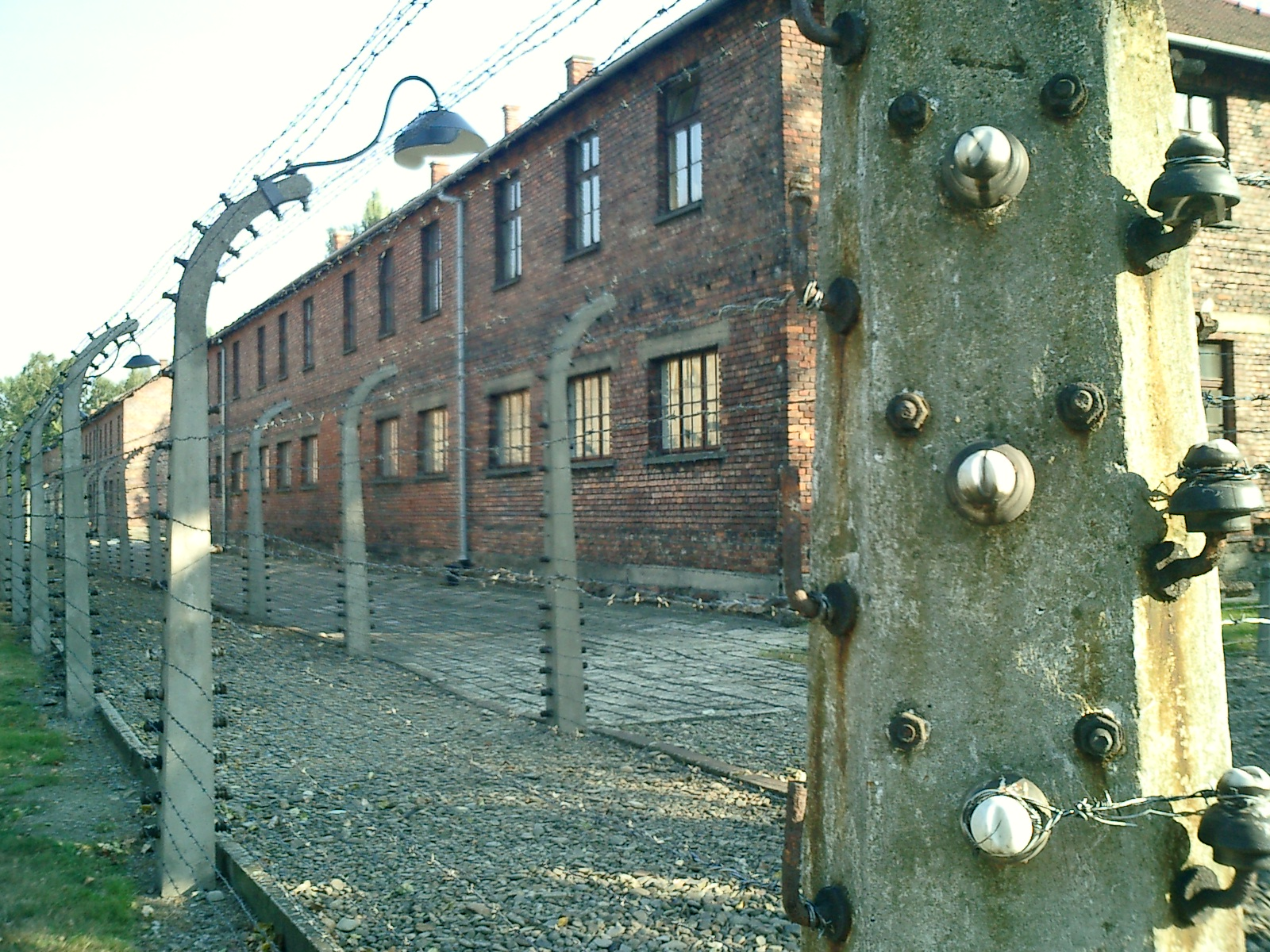 Auschwitz concentration camp, Poland